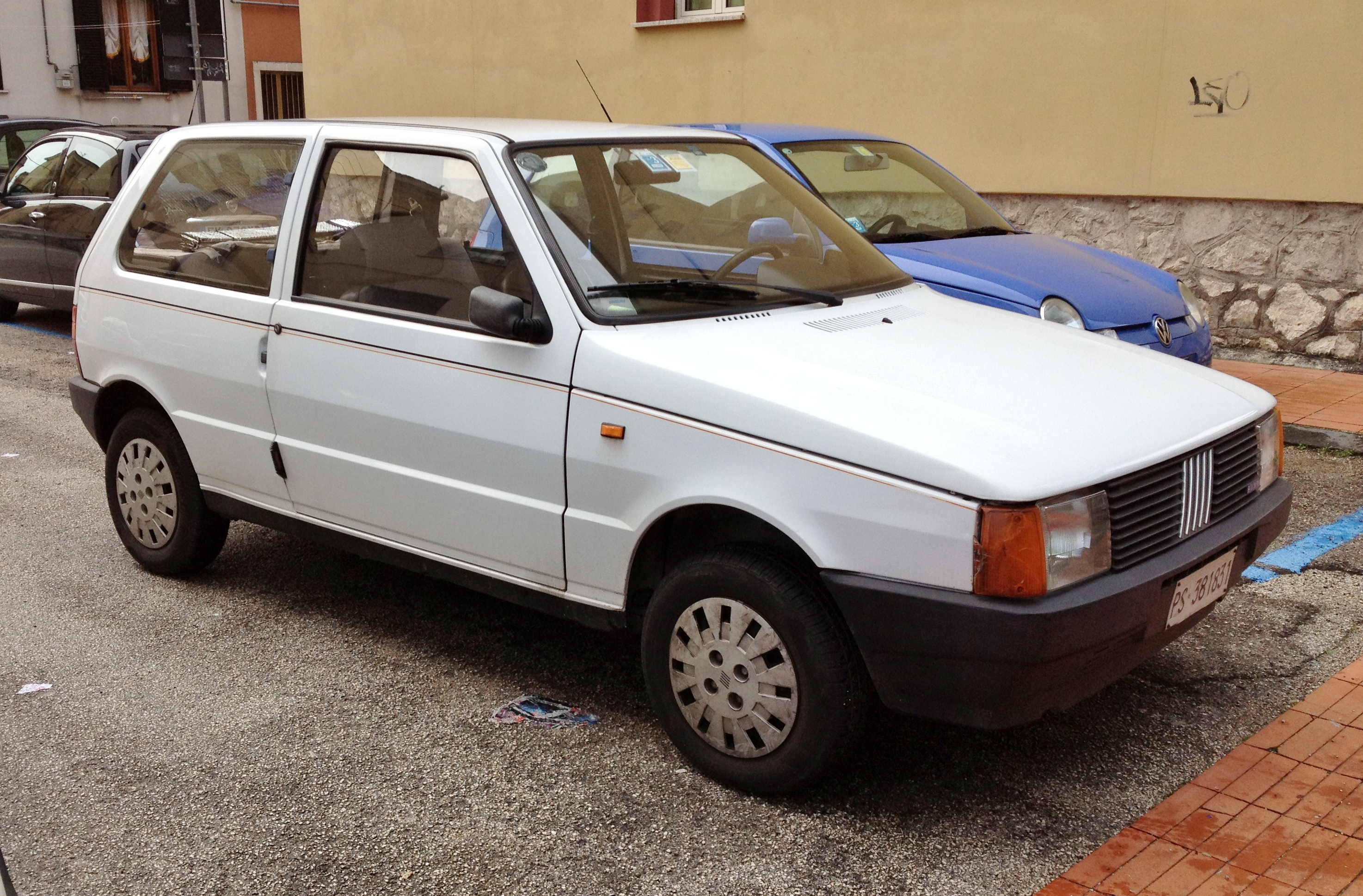 Fiat Uno CS 3door in Avellino, Italy